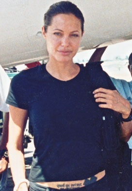 Angelina Jolie is seen after traveled by now defunct Lionair at the Jaffna Airport during her visit to war-ravaged Jaffna and other parts of Northern Province in Sri Lanka as the Goodwill Ambassador for UNHCR in 2003.